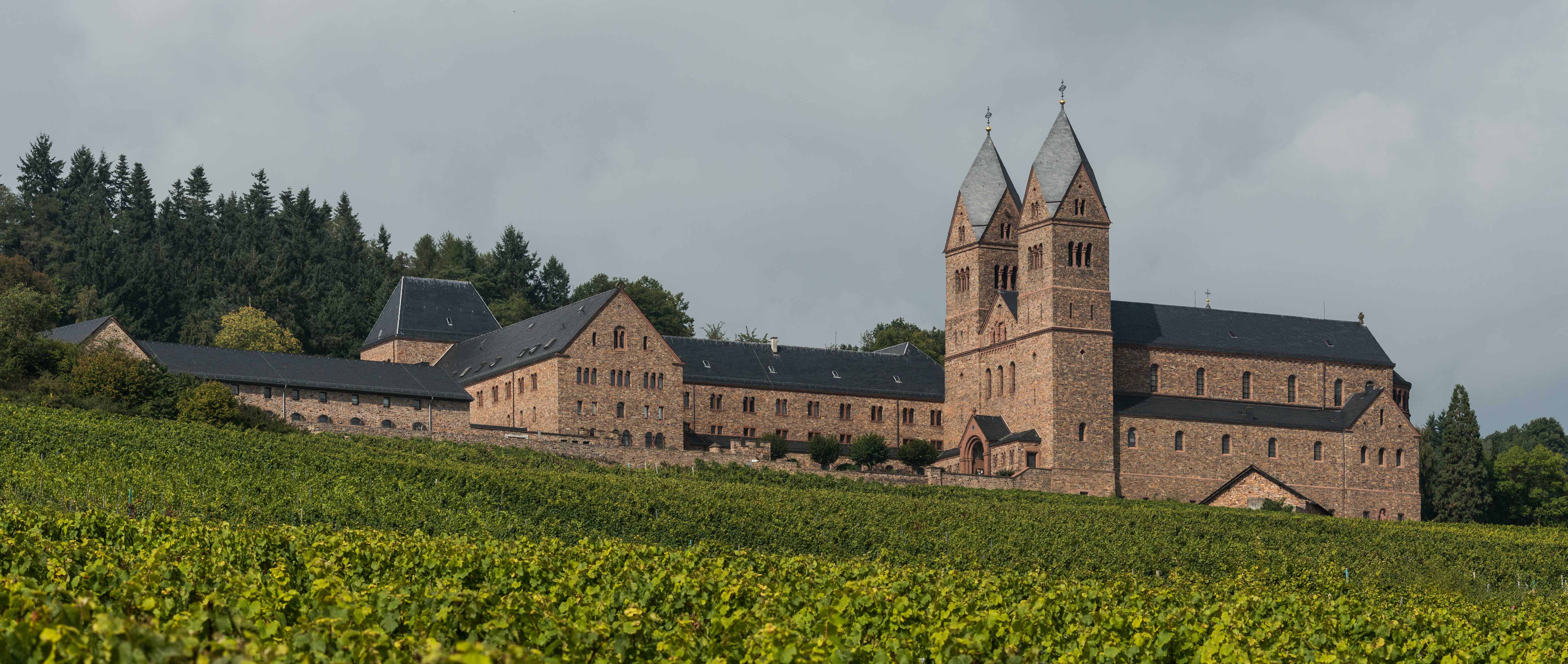 A south view of Eibingen Abbey as seen from the vineyards of Rüdesheim am Rhein